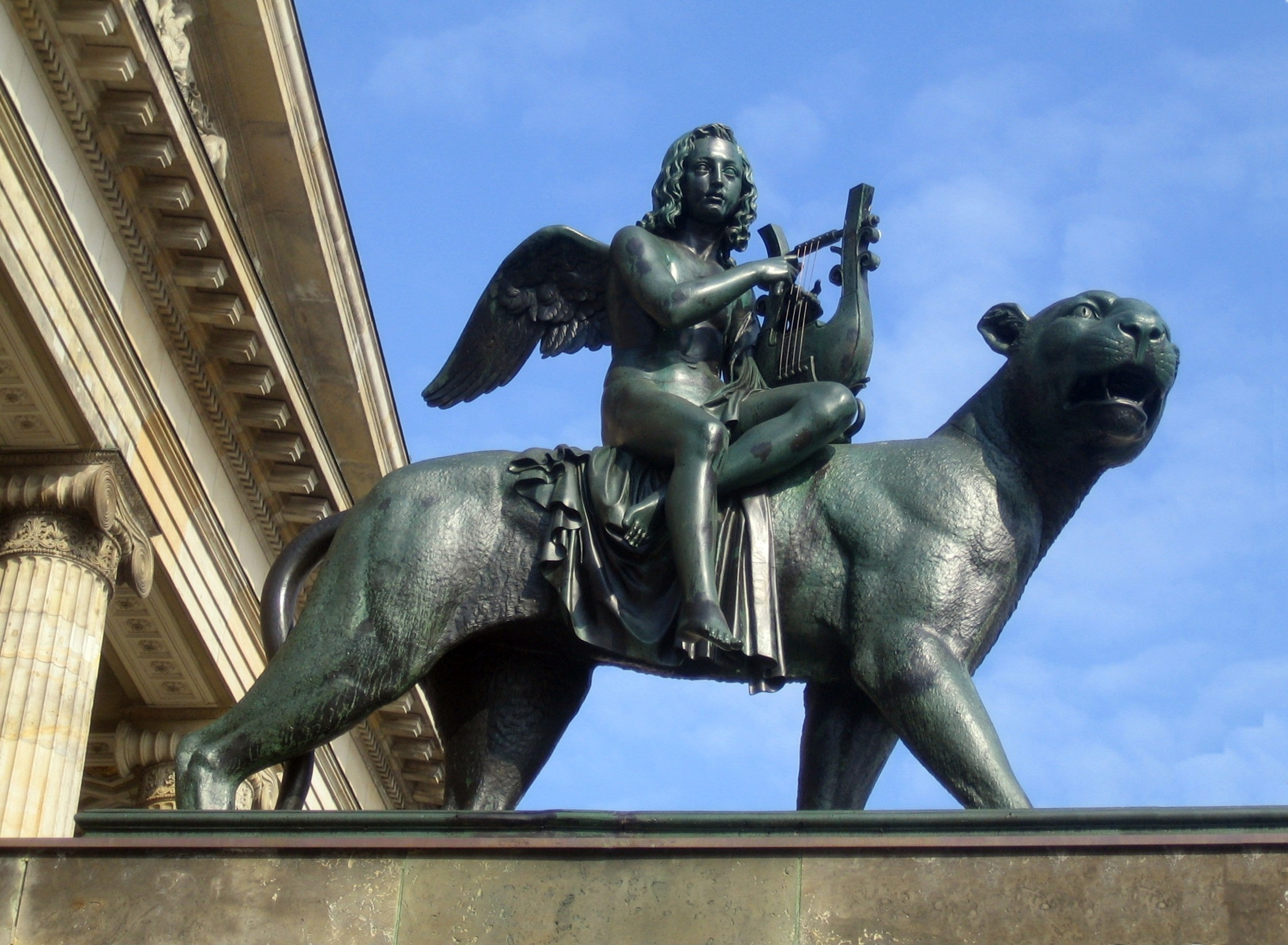 Konzerthaus (concert hall) Berlin. Bacchus auf dem Panther, created by Christian Friedrich Tieck about 1845.